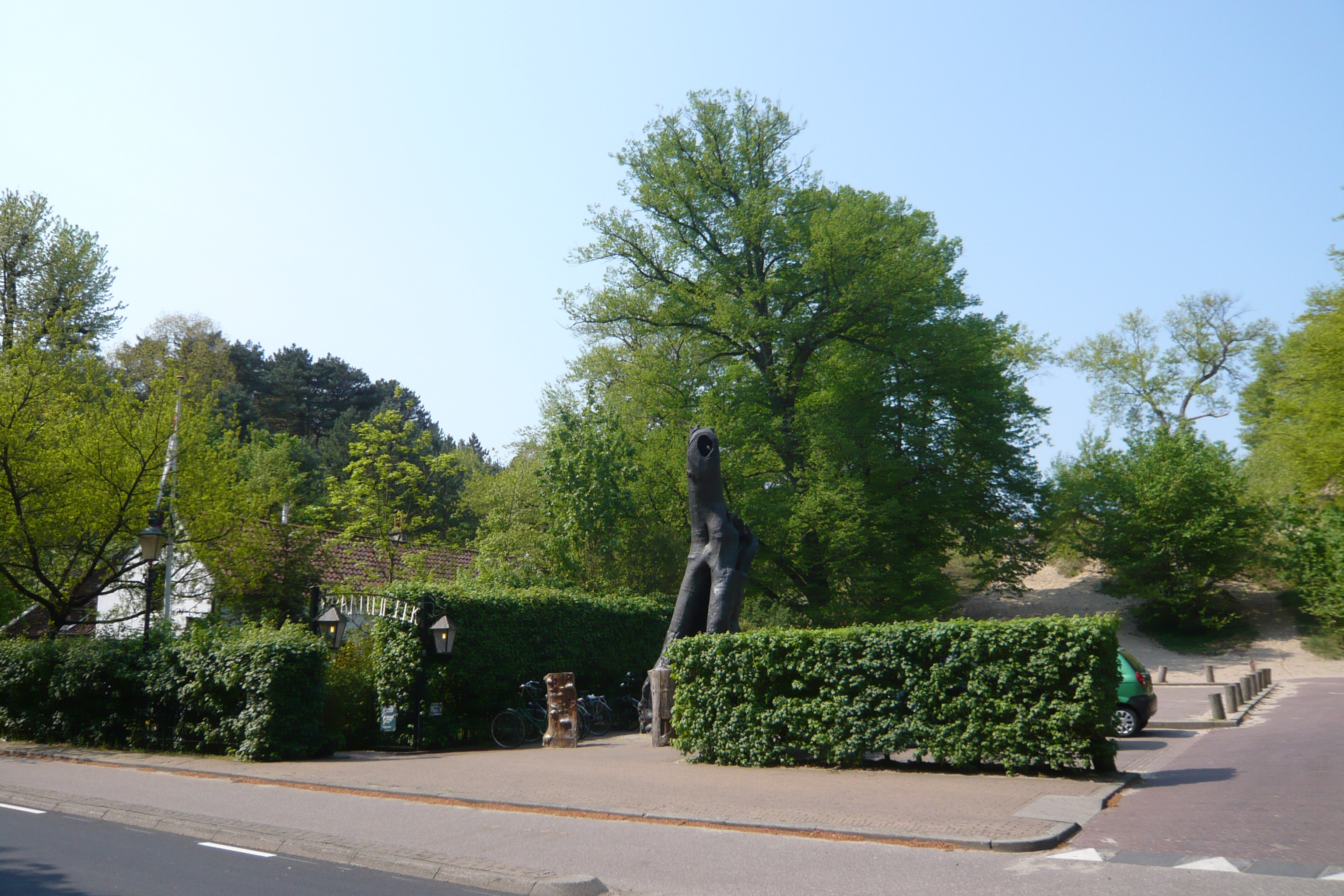 Restaurant Kraantje Lek in Overveen, Bloemendaal, the Netherlands. The black sculpture is the tarred over remains of a monumental tree known locally as the "Holle boom" which finally died in the 1990's. Behind the tree a large sand dune can be seen. A flight of stairs takes the visitor to a view of the park Kennemerduinen and the trail "Visserspad". This particular dune is a popular place for various sports clubs in the area who train by running up and down this sand dune and along the trail (which leads to Zandvoort). To the right (not shown) one of three public water fountains at the edge of the dunes park is often used by joggers, cyclists and dog owners in the summer months (during the winter it is turned off).